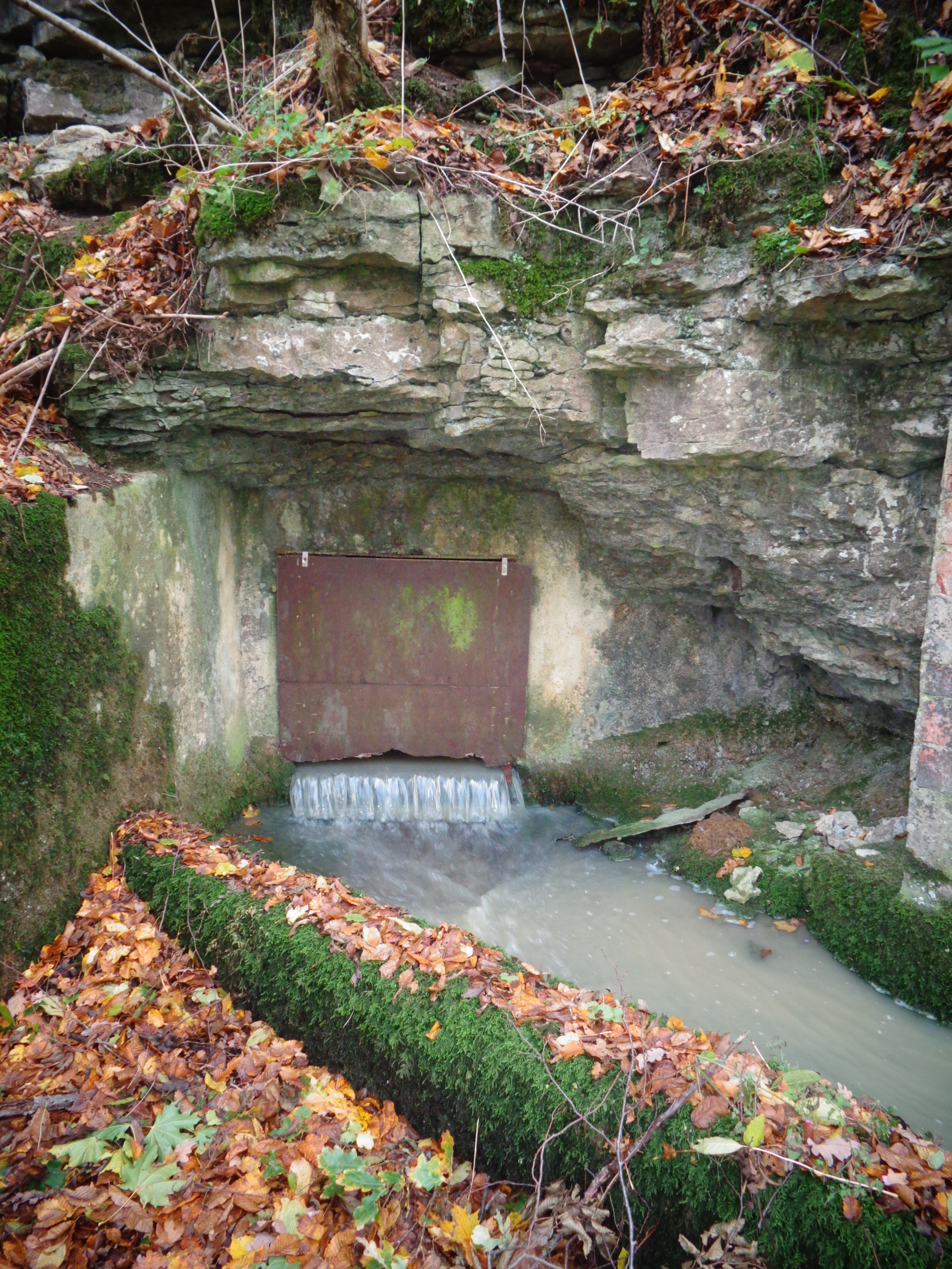 Source of Orlacher Bach, Orlach, Germany 2017